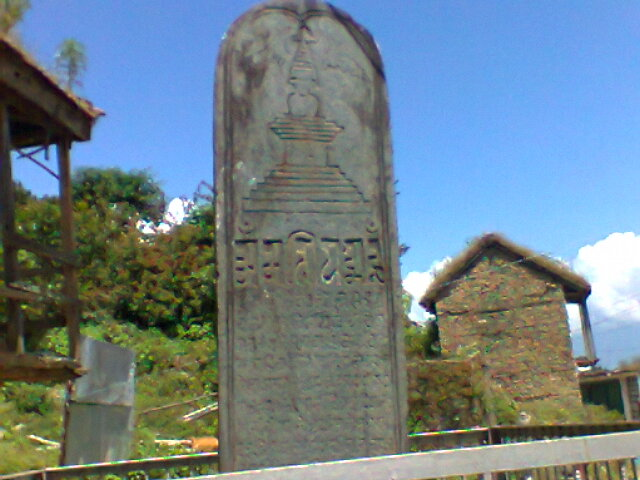 Prithivi Malla's Kirtistambha (Dullu)